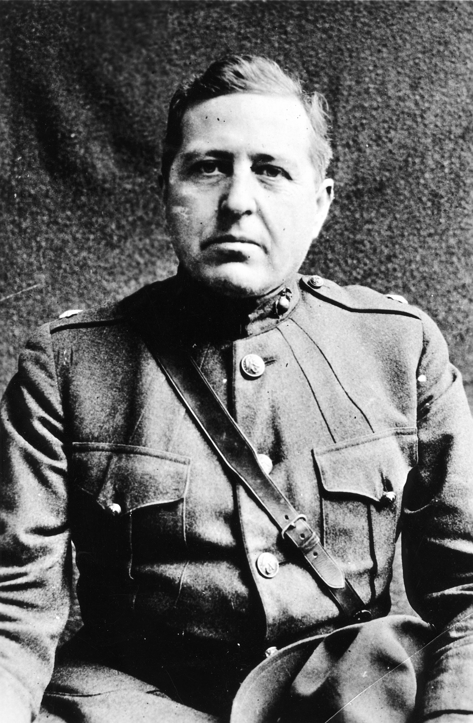 Captain Hiram I Bearss, USMC - Medal of Honor recipient, photo from official USMC site